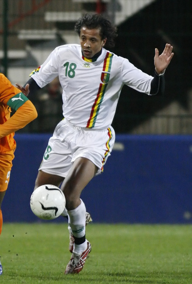 Guinean player Almamy Schuman Bah during match Guinea vs. Côte d'Ivoire at Stade Robert Diochon, Rouen, France.